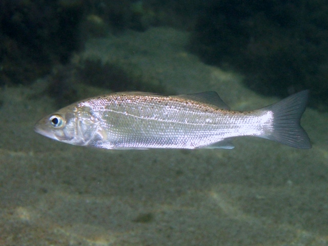 Dicentrarchus labrax photographed in Sardinia, Italy.